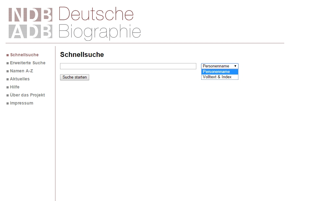 Deutsche Biographie (ADB-/NDB-Register): Screenshot of the website of the German Biography (Browser: Crome).